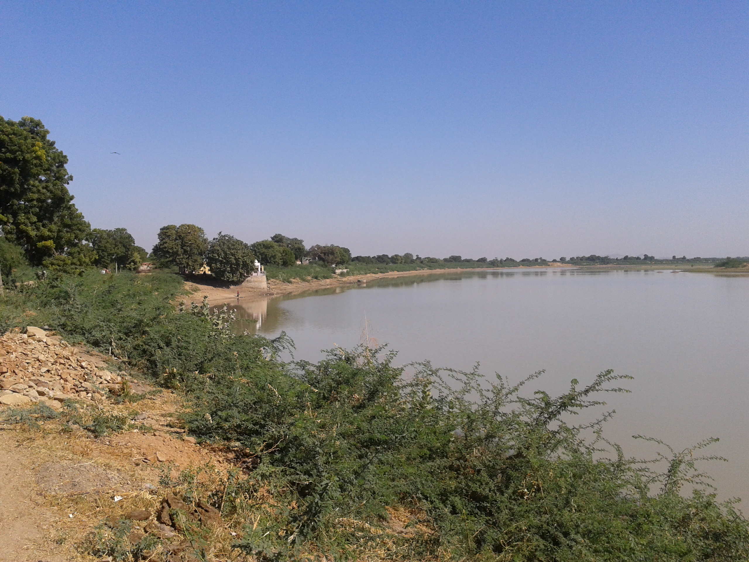 An image of Endla Dam.